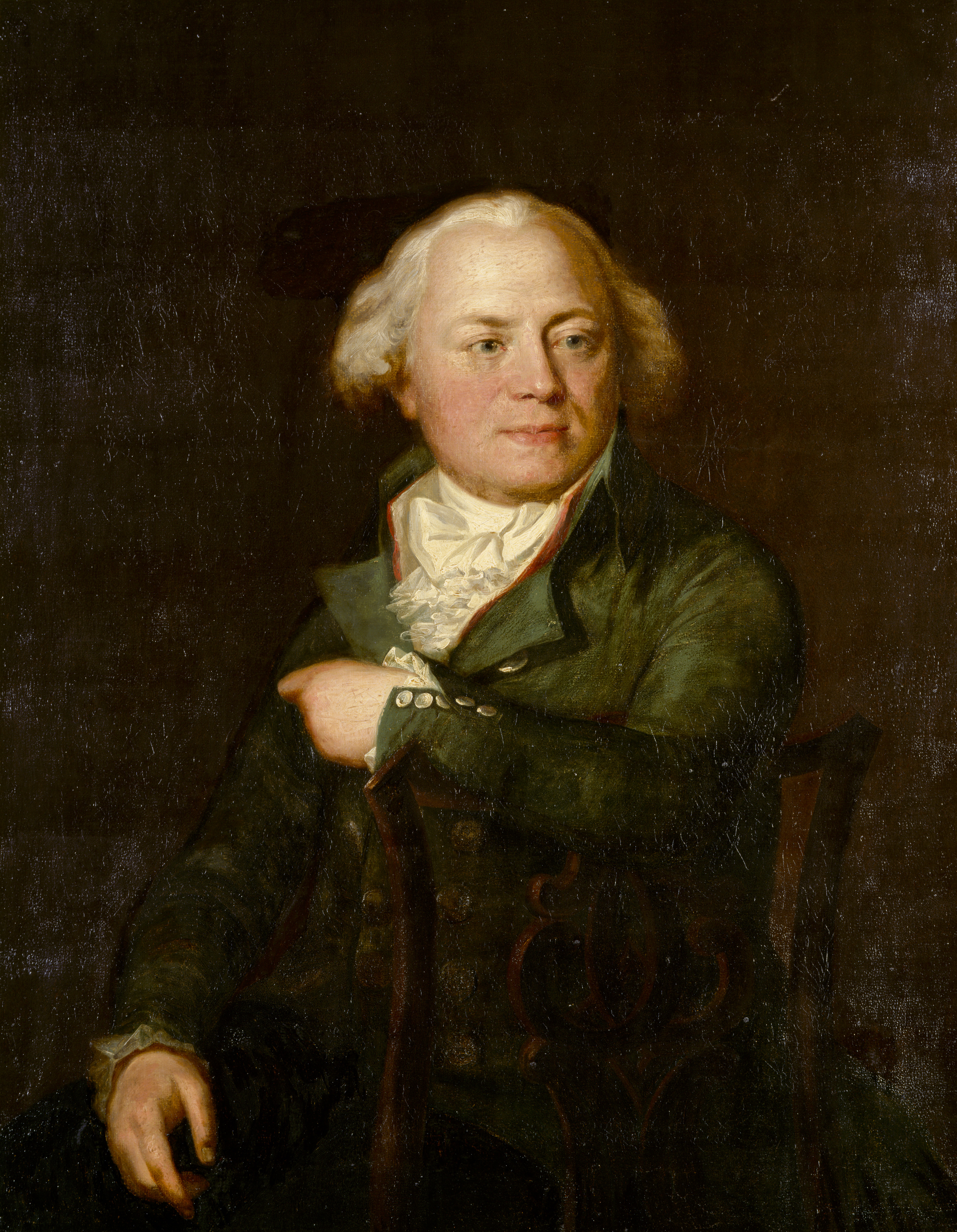 Portrait of Francis Bauer (1758-1840), F.R.S., F.L.S, oil on canvas, ca. early 19th century. Unknown artist. 920 mm x 700 mm. Part of Sir William Hooker's Collection, purchased by the Commissioners of Her Majesty's Works & Public Buildings for Kew in 1866.